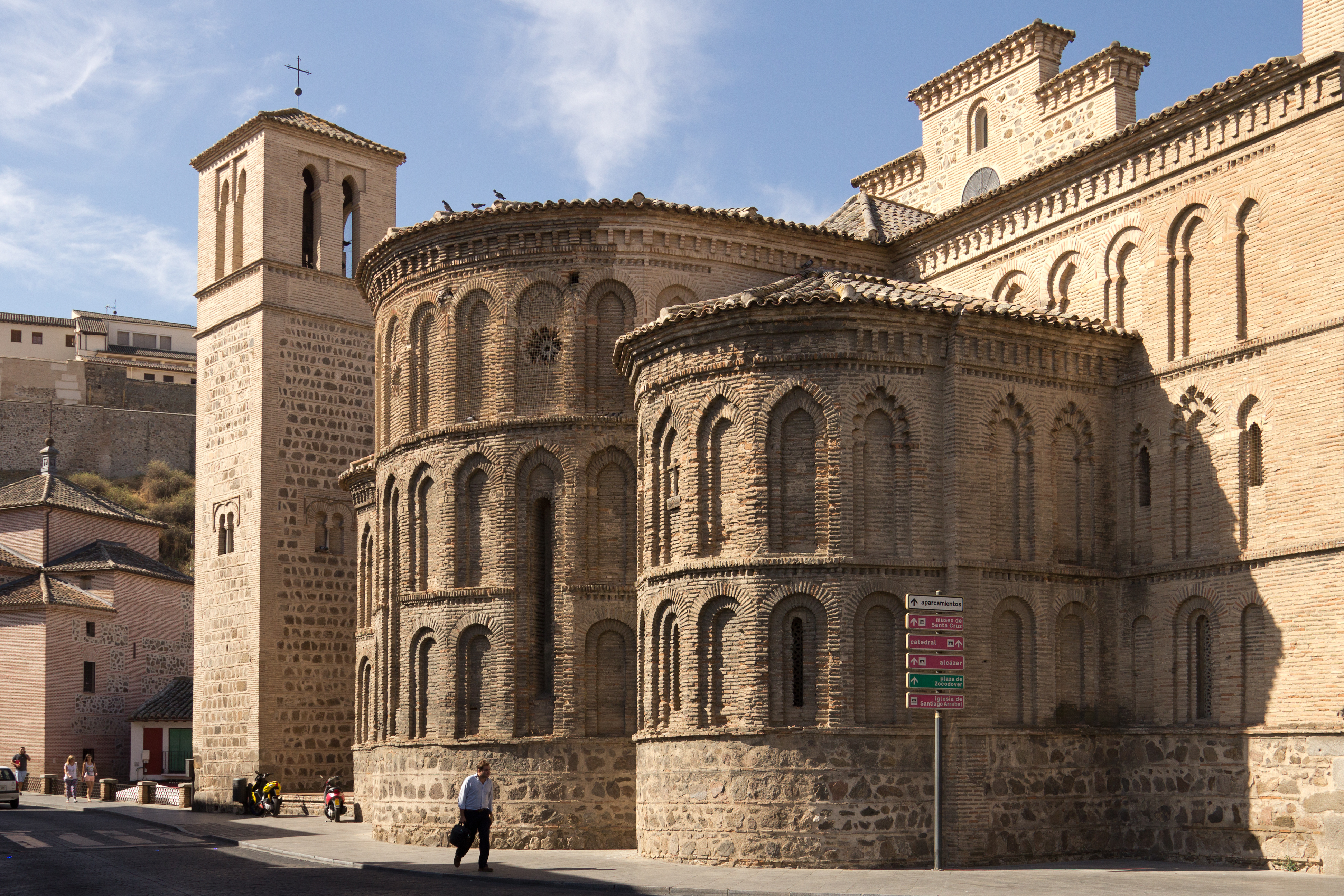 Church of Santiago del Arrabal, Toledo, Spain.